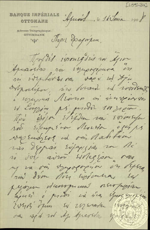 Filaretos_of_Dimotika_Letter_to_Ion_Dragoumis